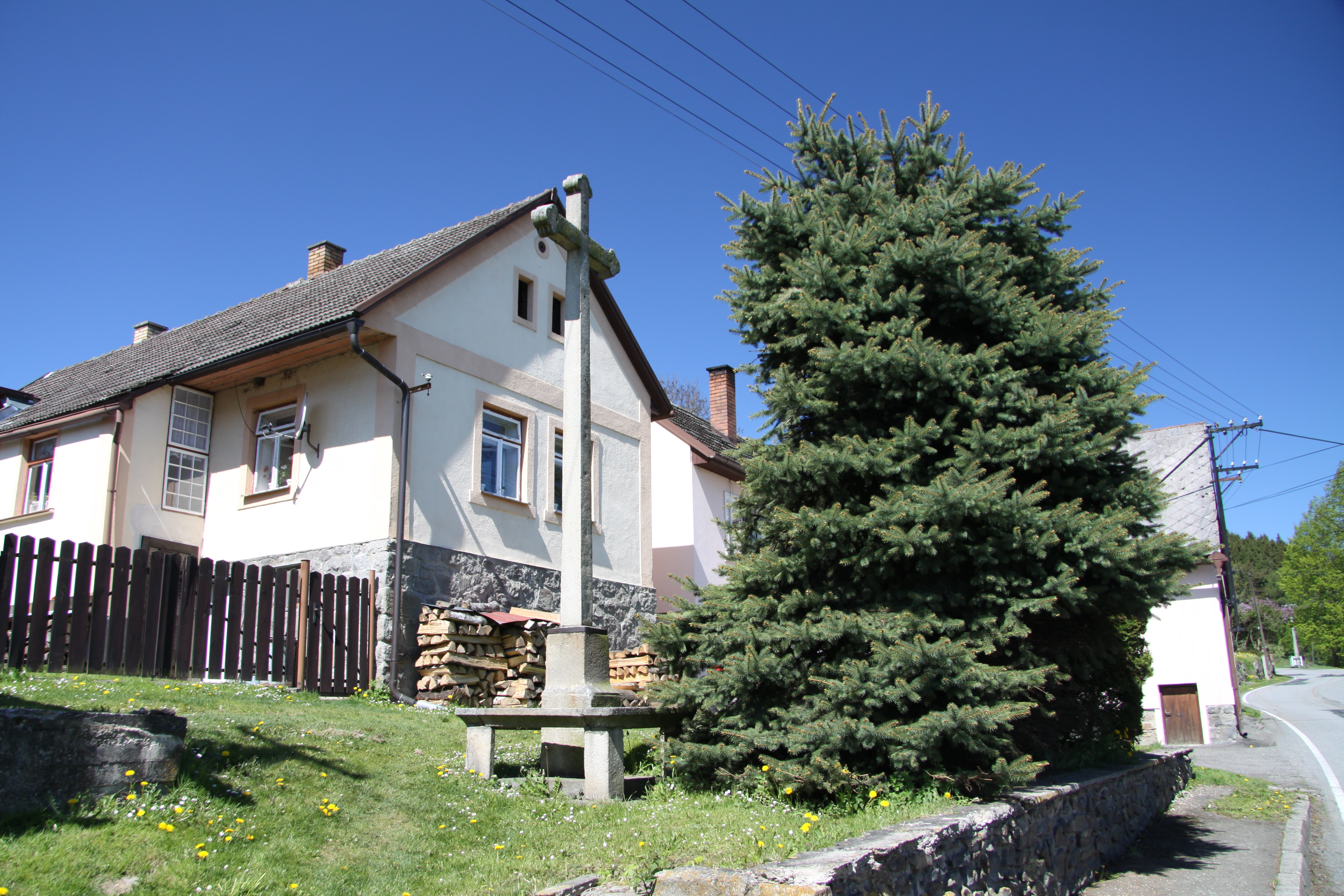 Chvalšovice village, part of Dřešín village in Strakonice District, Czech Republic - Google Maps - Google Earth